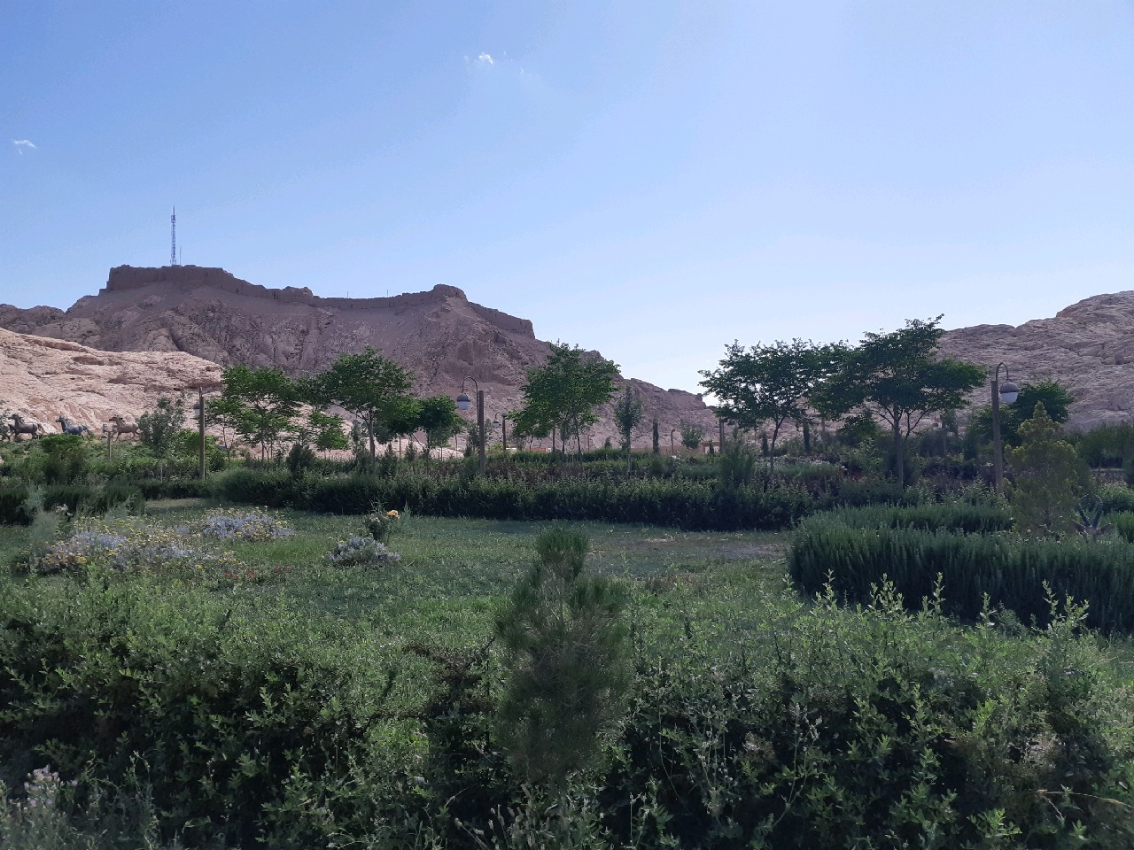 parkkerman Аҧсшәа: kermanpark